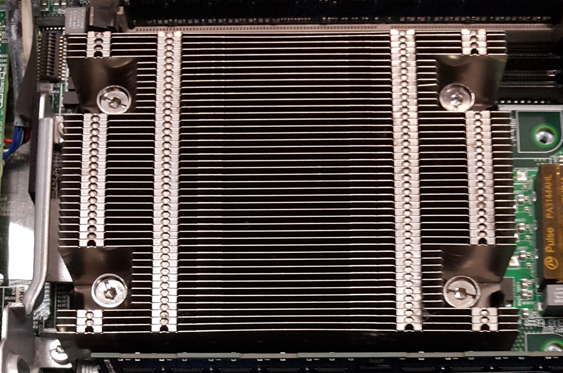 Aluminium made CPU cooling radiator used in a server (Proliant DL 360p G3)